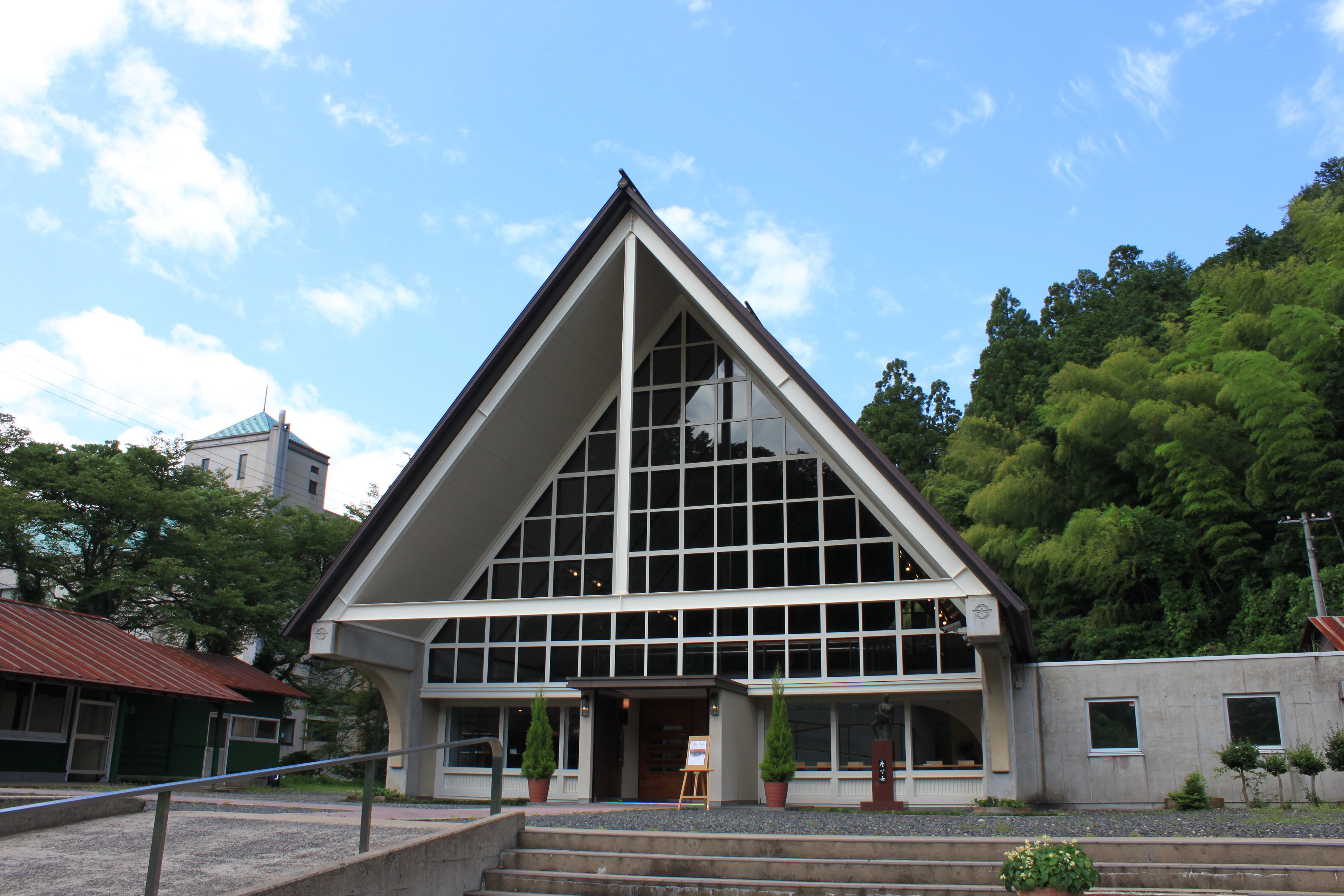 misasa museum,tottori japan